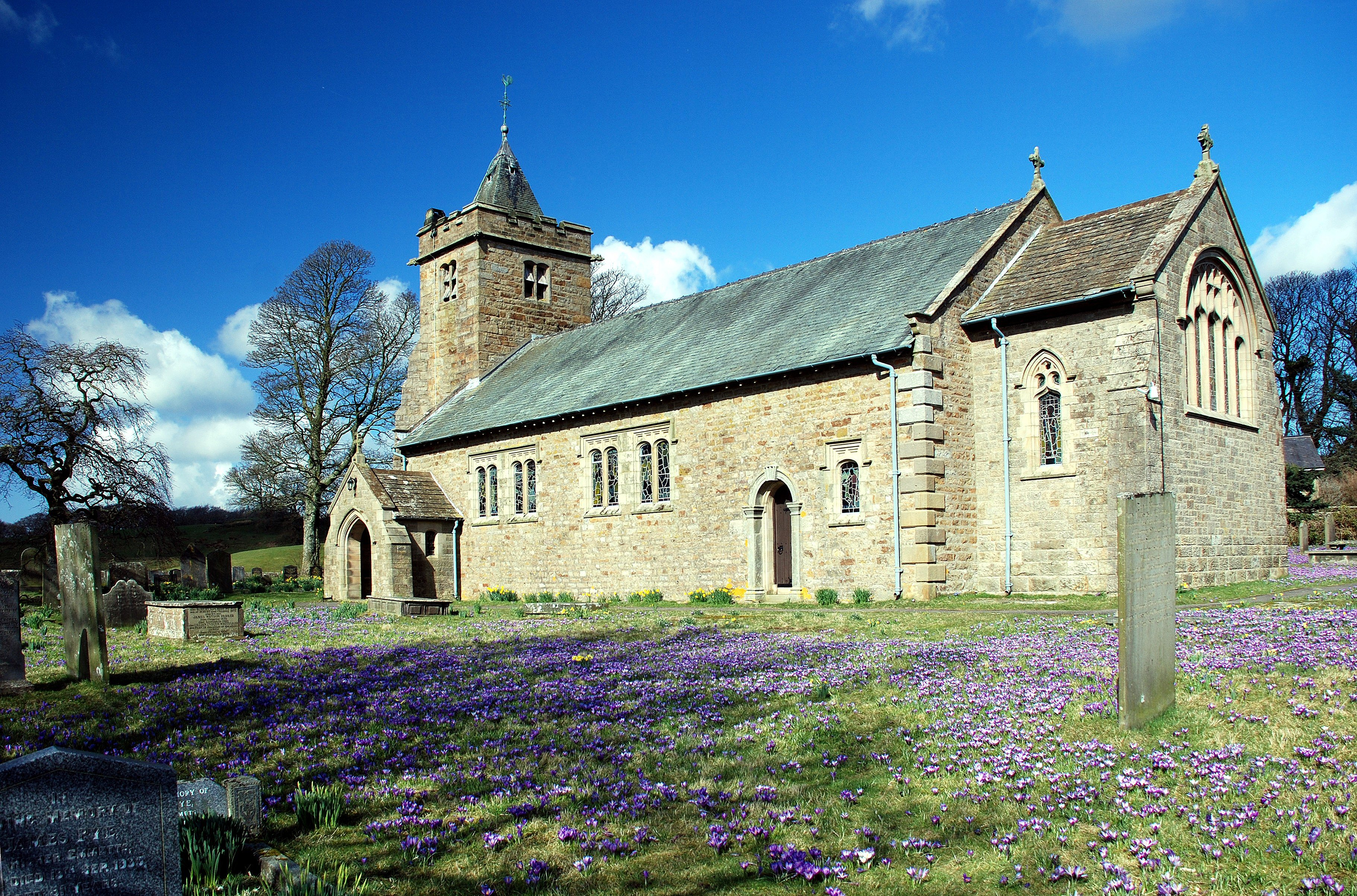 Christ Church, Over Wyresdale Wikidata has entry Q5108707 with data related to this item.